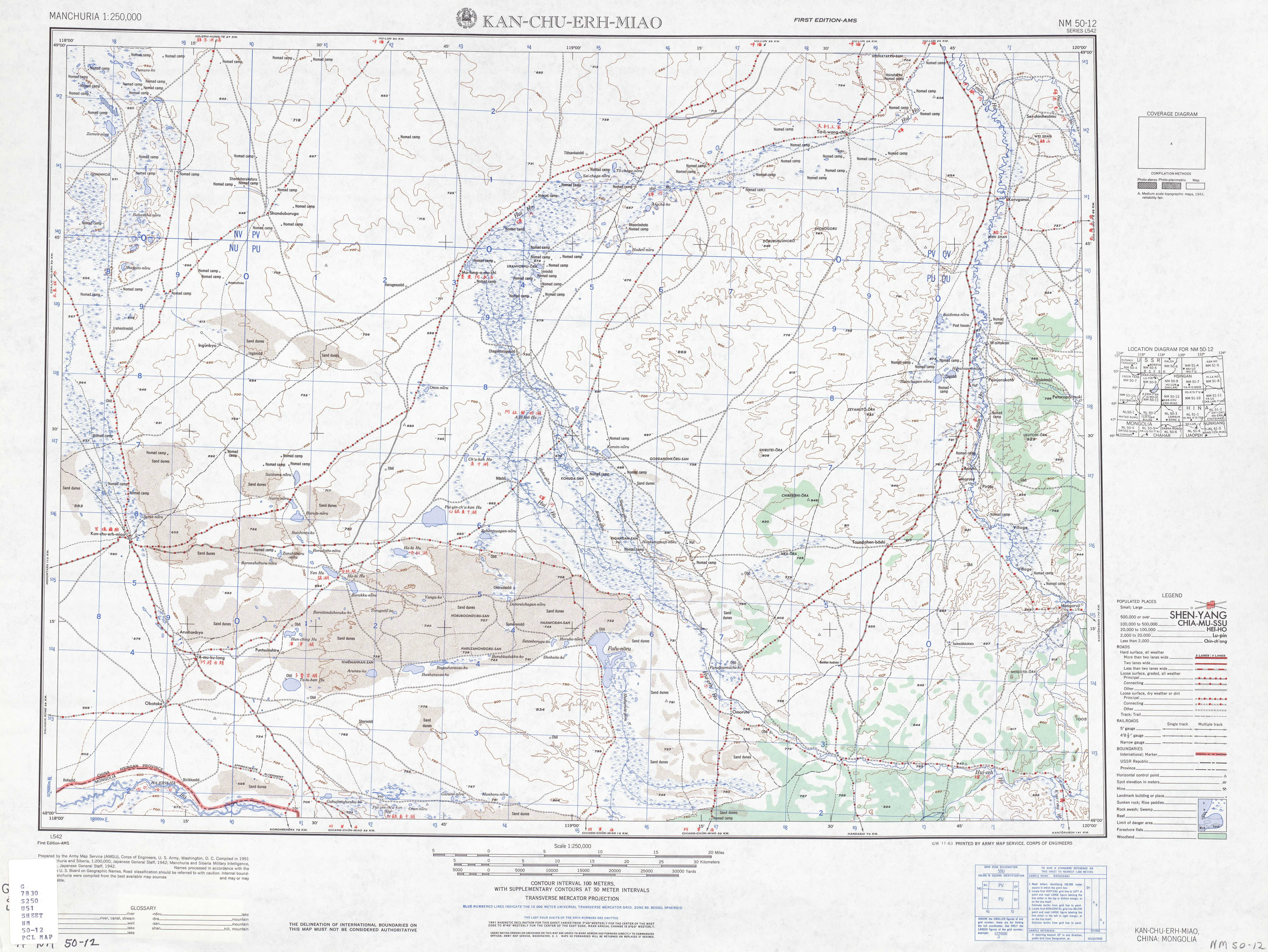 Manchuria AMS Topographic Maps